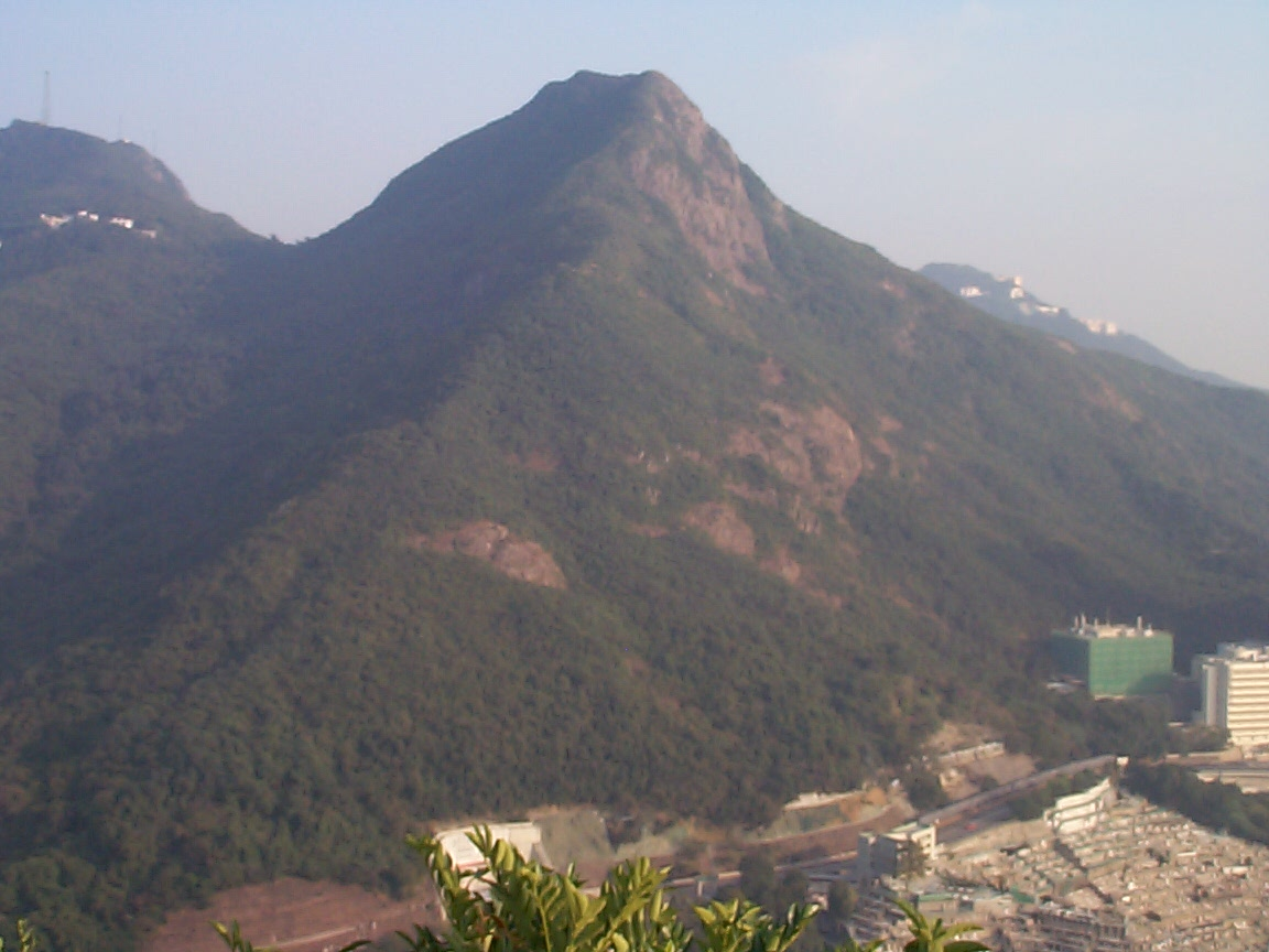 High West Hong Kong photographed from Mount Davis to the West